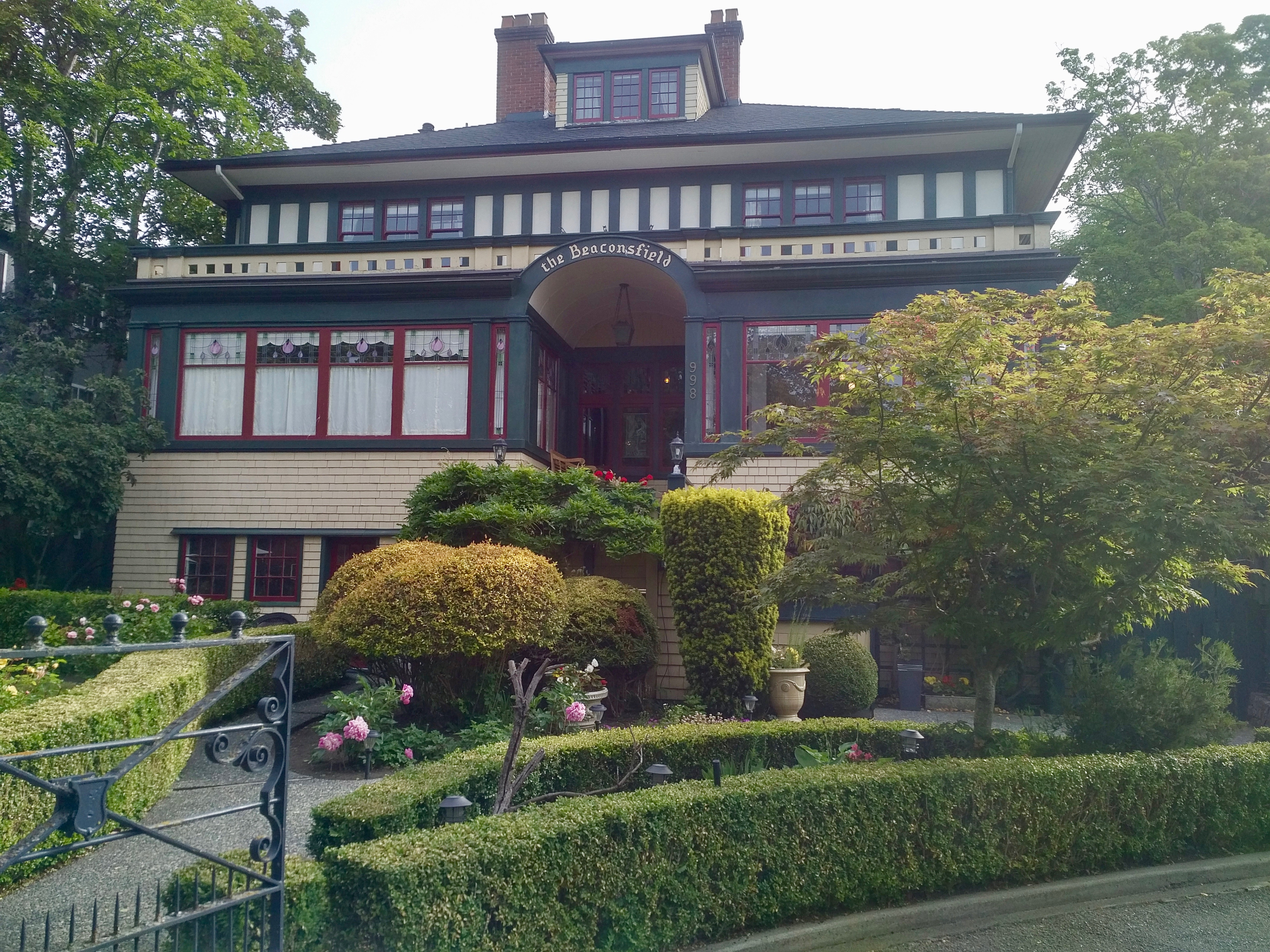 Beaconsfield - 998 Humboldt